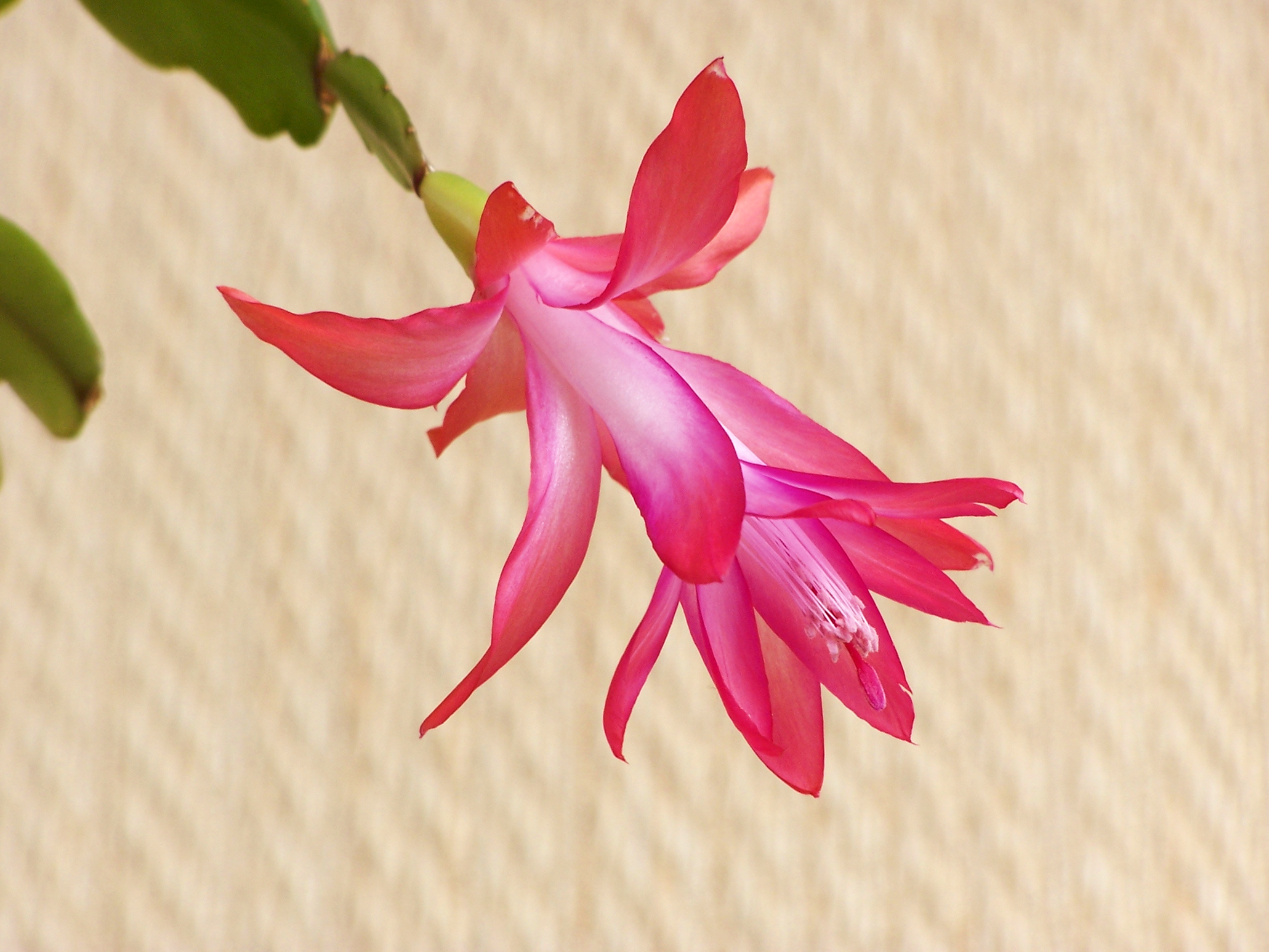 Close-up photo of a Christmas cactus.